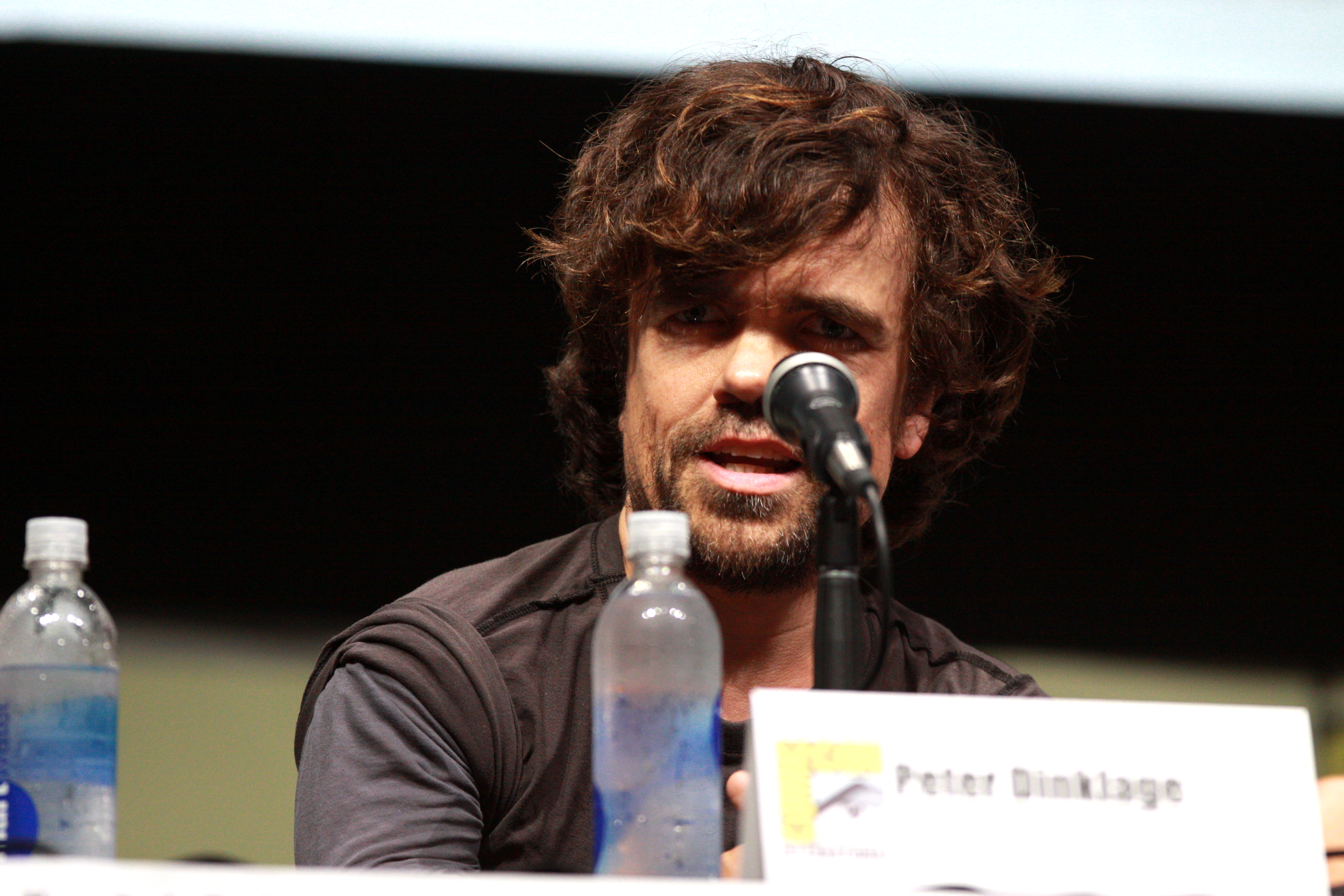 Peter Dinklage speaking at the 2013 San Diego Comic Con International, for "Game of Thrones", at the San Diego Convention Center in San Diego, California.